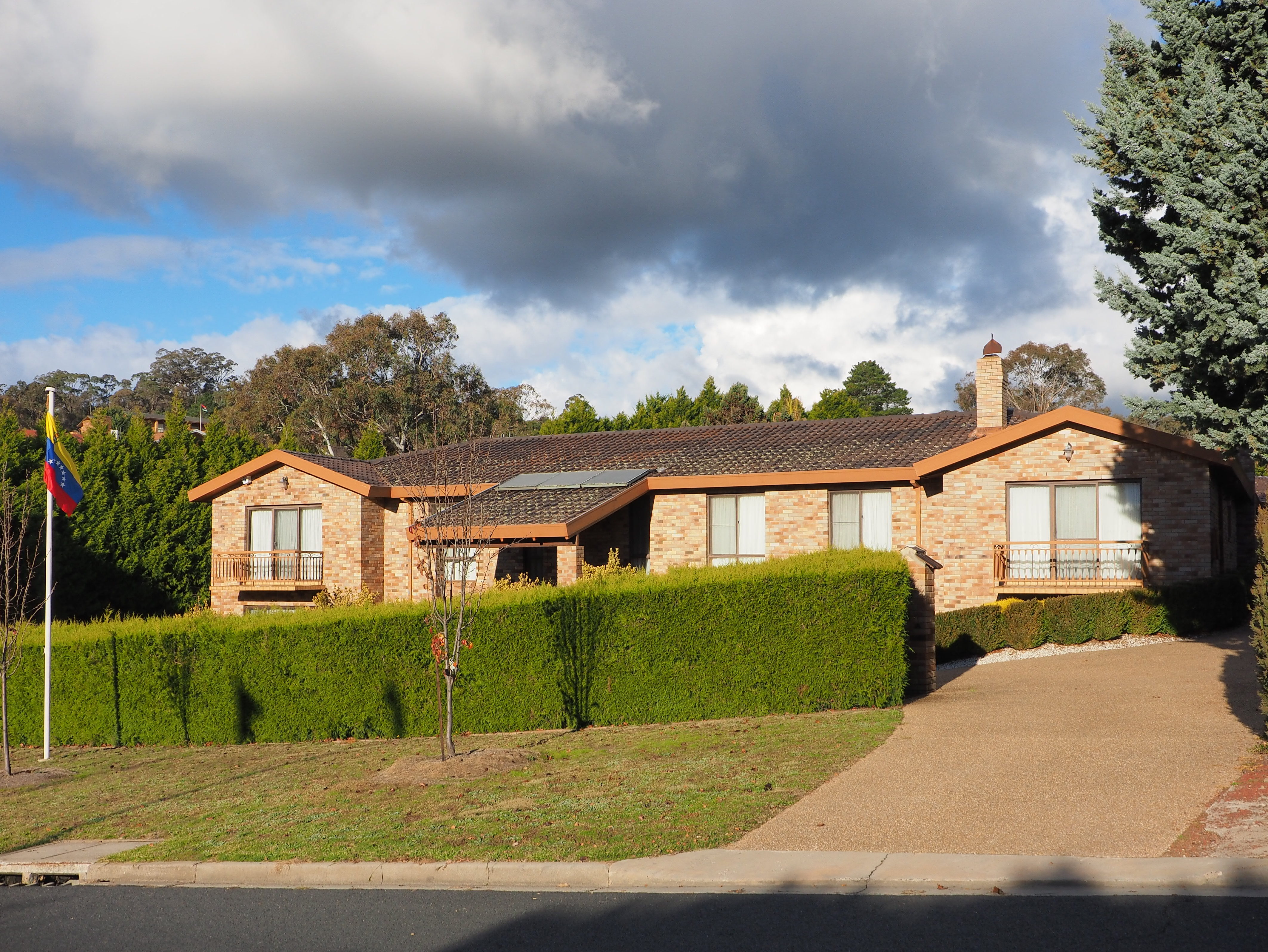 The Embassy of Venezuela to Australia